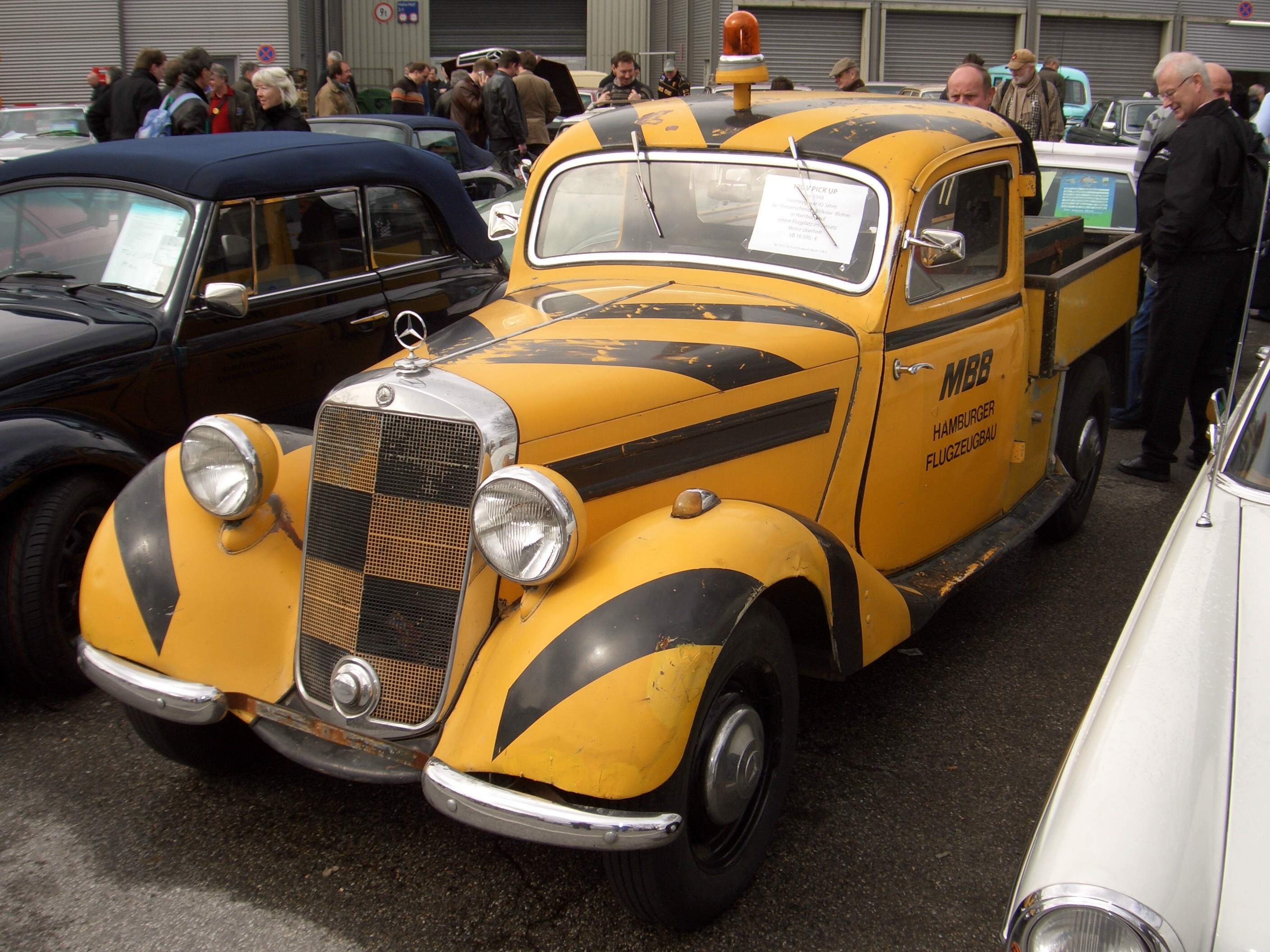 Mercedes-Benz 170 V Pickup (W136, 1936-1953), airfield transport vehicle of MESSERSCHMITT-BOELKOW-BLOHM (MBB), seen at TECHNO CLASSICA in Essen, Germany